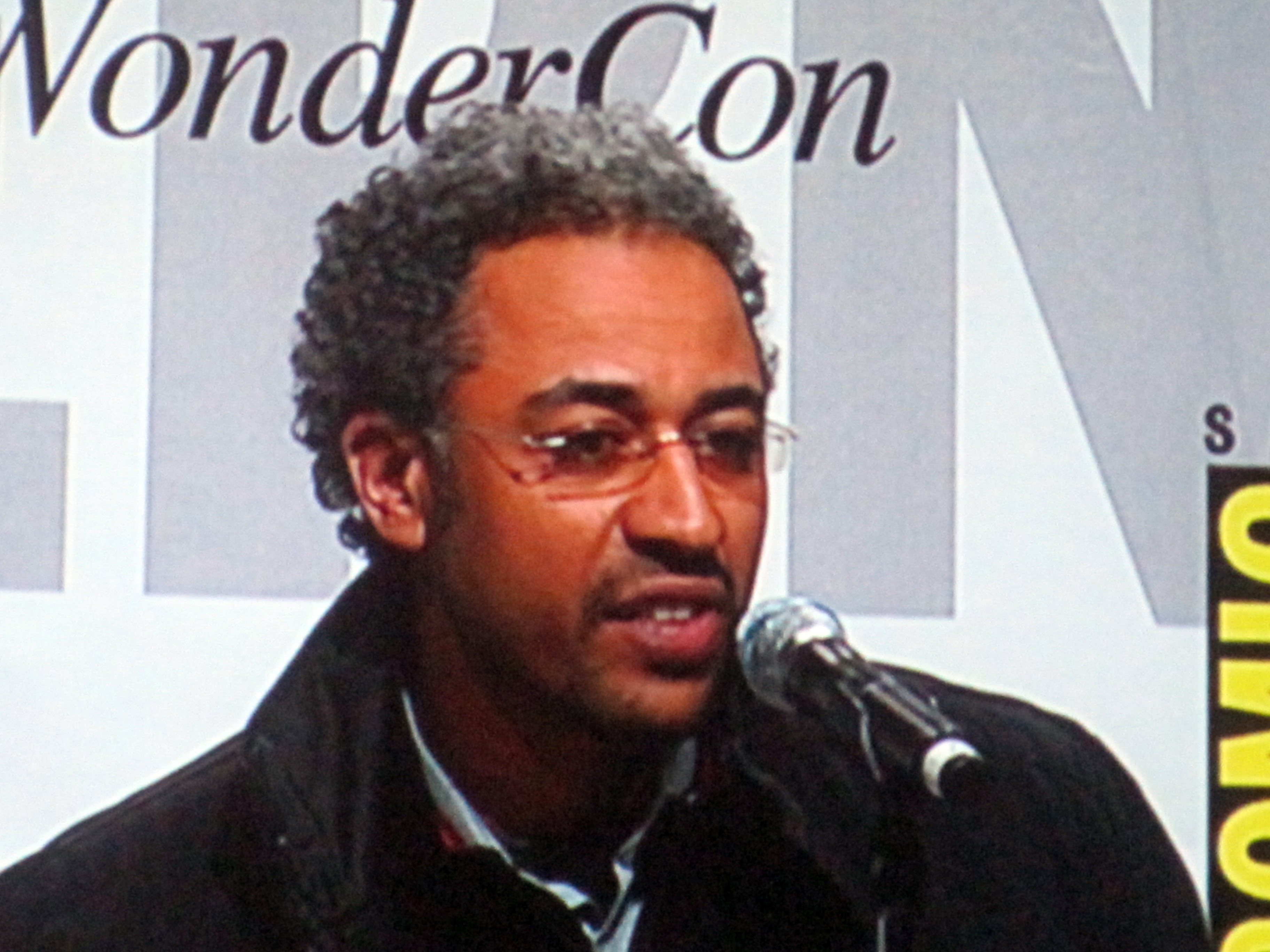 Director Sylvain White at The Losers film panel at WonderCon 2010.